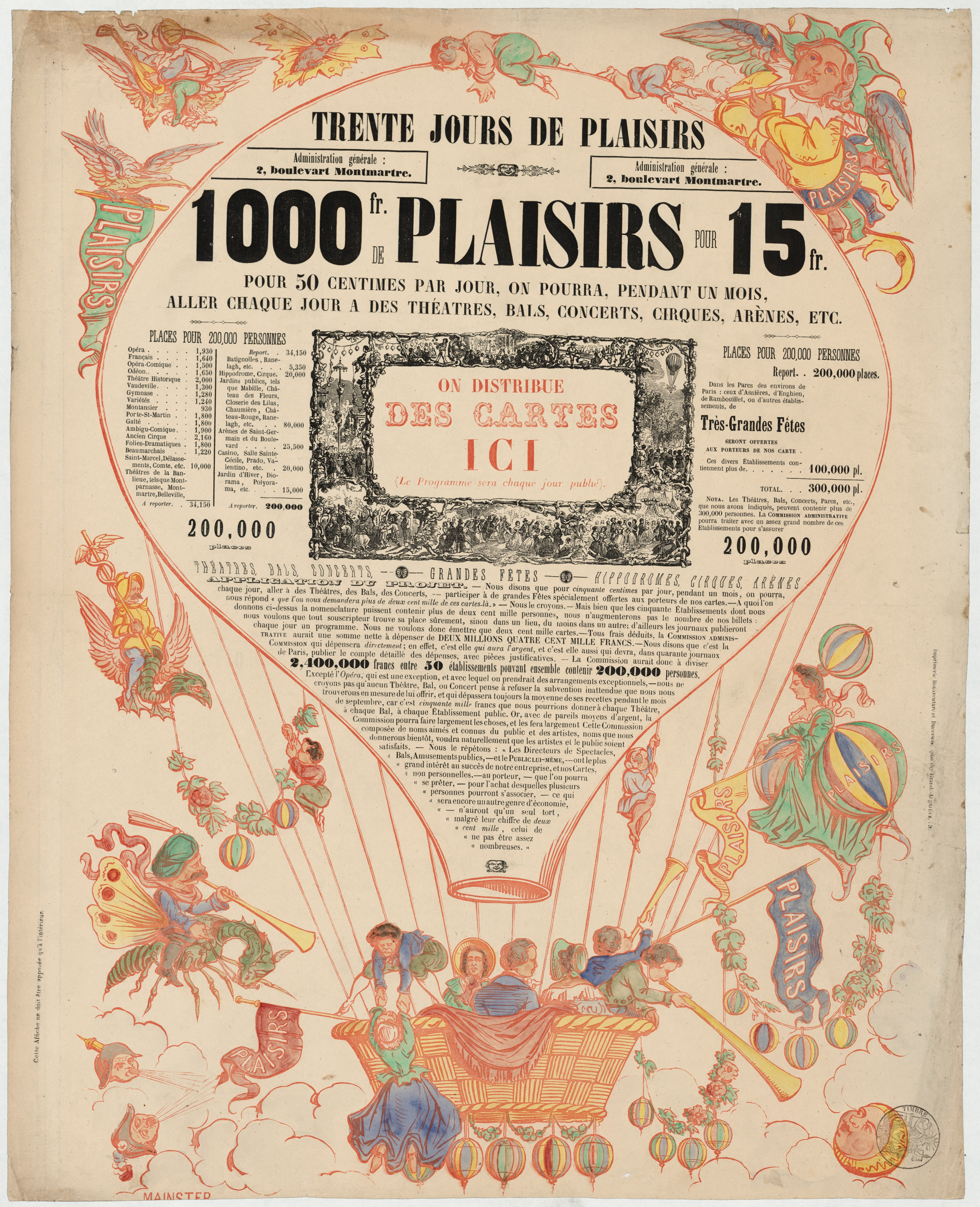 Advertisement for a monthly subscription to theatrical productions, balls, concerts, the circus, and other entertainments, probably at venues in and around Paris. Text appears within an outline of a balloon ascending with seven passengers. Costumed figures on winged creatures fly alongside the balloon, rest on top of the balloon, or climb balloon ropes.